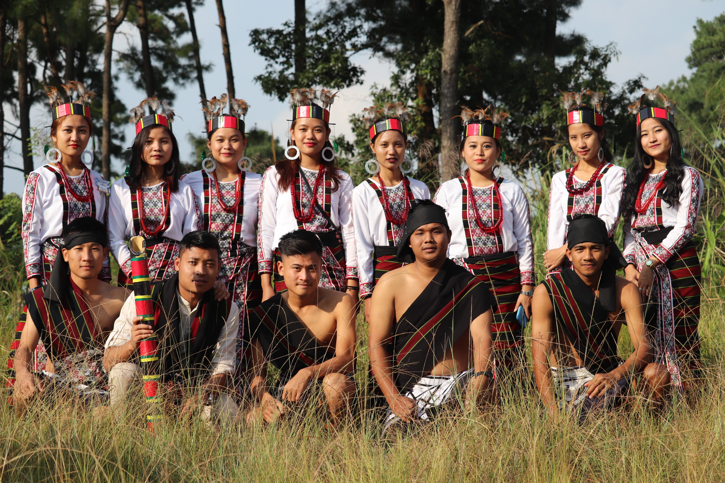 This photograph shows the modern Darlong youth in their traditional attire during a cultural event in Shillong Meghalaya